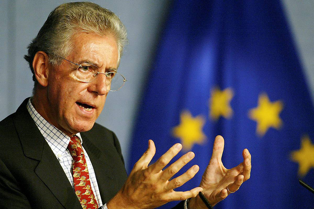 Former European Commissioner Mario Monti gestures during a news conference in Brussels.